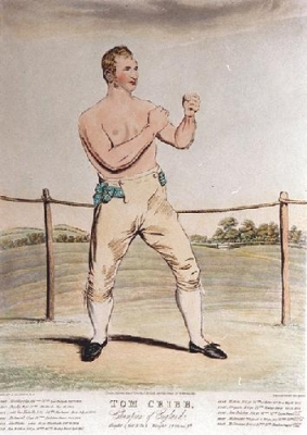 Tinted etching of the boxer Tom Cribb. Drawn by J. Jackson, R.A. Engraved by Geo. Hunt. London. Published May 10th 1842 by J. Moore Public domain by virtue of age